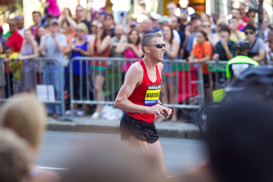 April 16, 2012: Jason Hartmann, who finished in fourth place at 2:14:31, was the top American finisher at the 116th Boston Marathon. (Sarah Mongeau-Birkett / BU News Service)